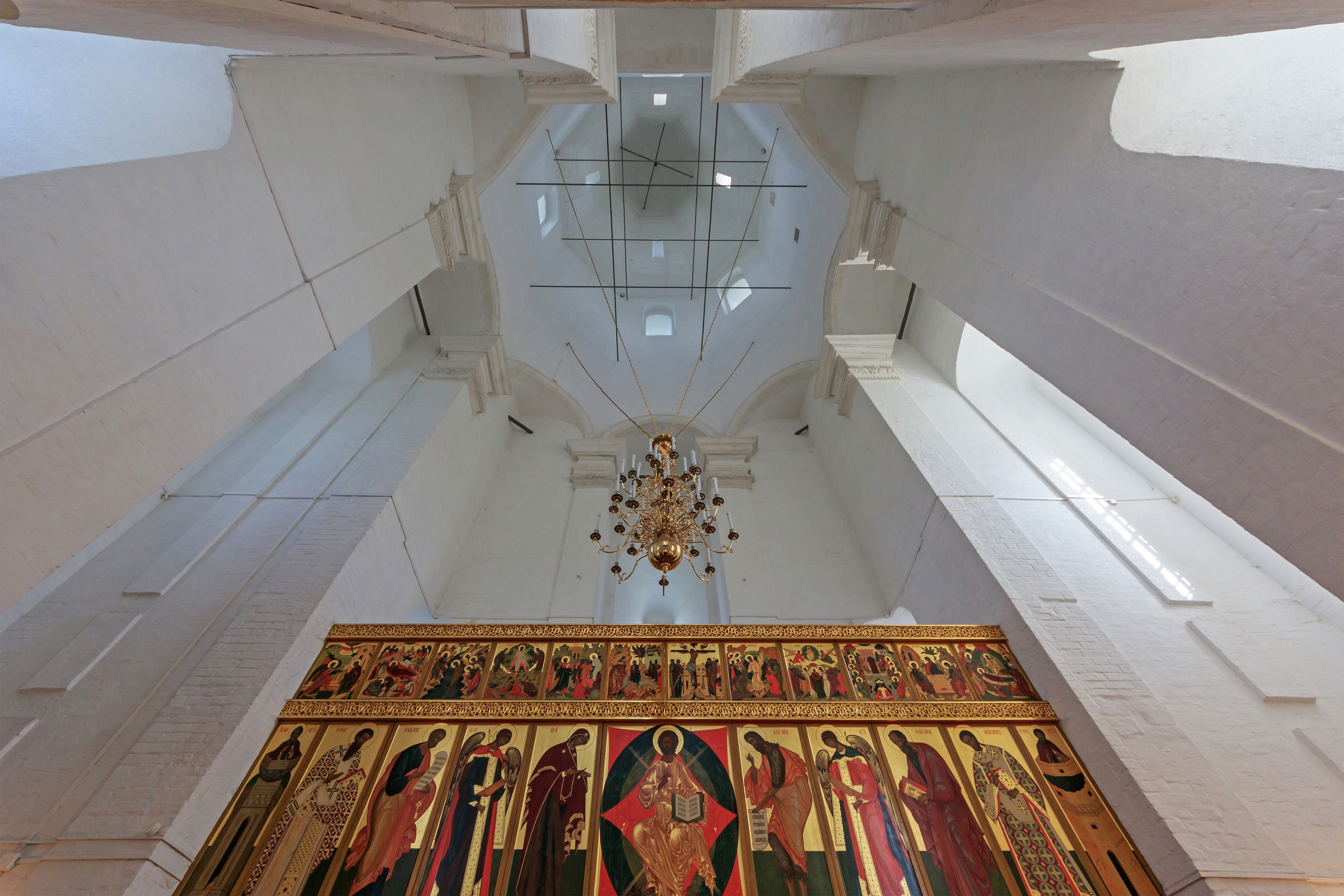 Interiors of the Ascension Church in Kolomenskoe Park. Moscow, Russia.